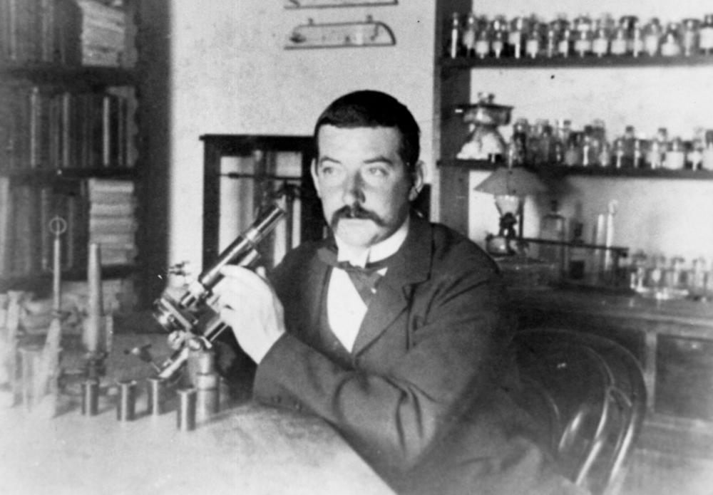 C. J. Pound of the Animal Research Institute, Queensland Department of Primary Industries. (source detail)